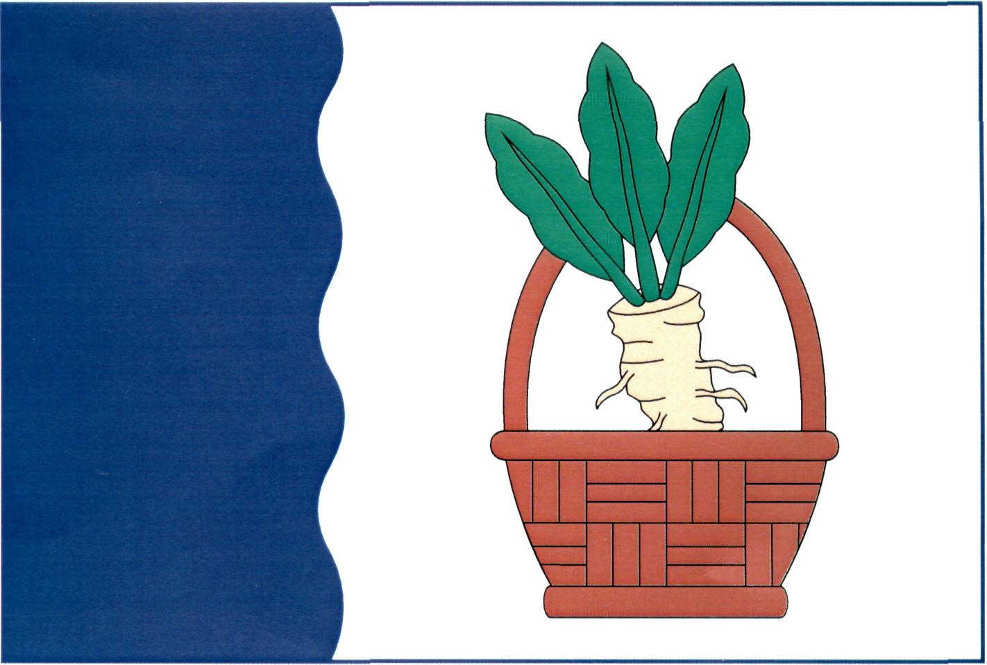 Municipal flag of Křenek , District Prague East, Czech Republic